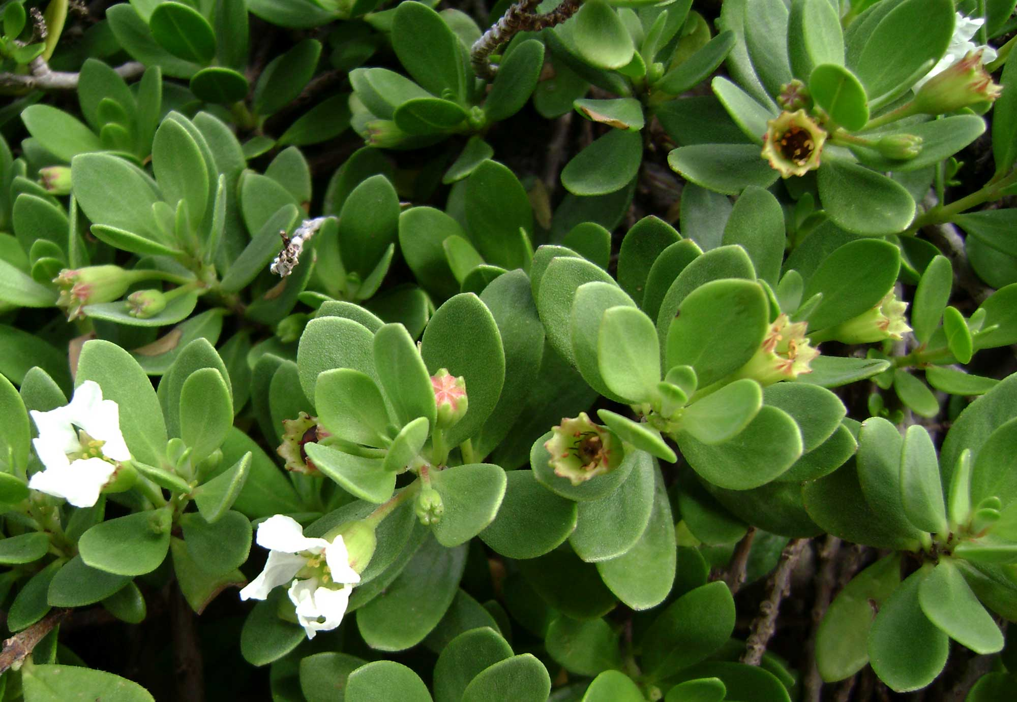 Pemphis acidula; (ngingie) abundant along the Tongan seashore